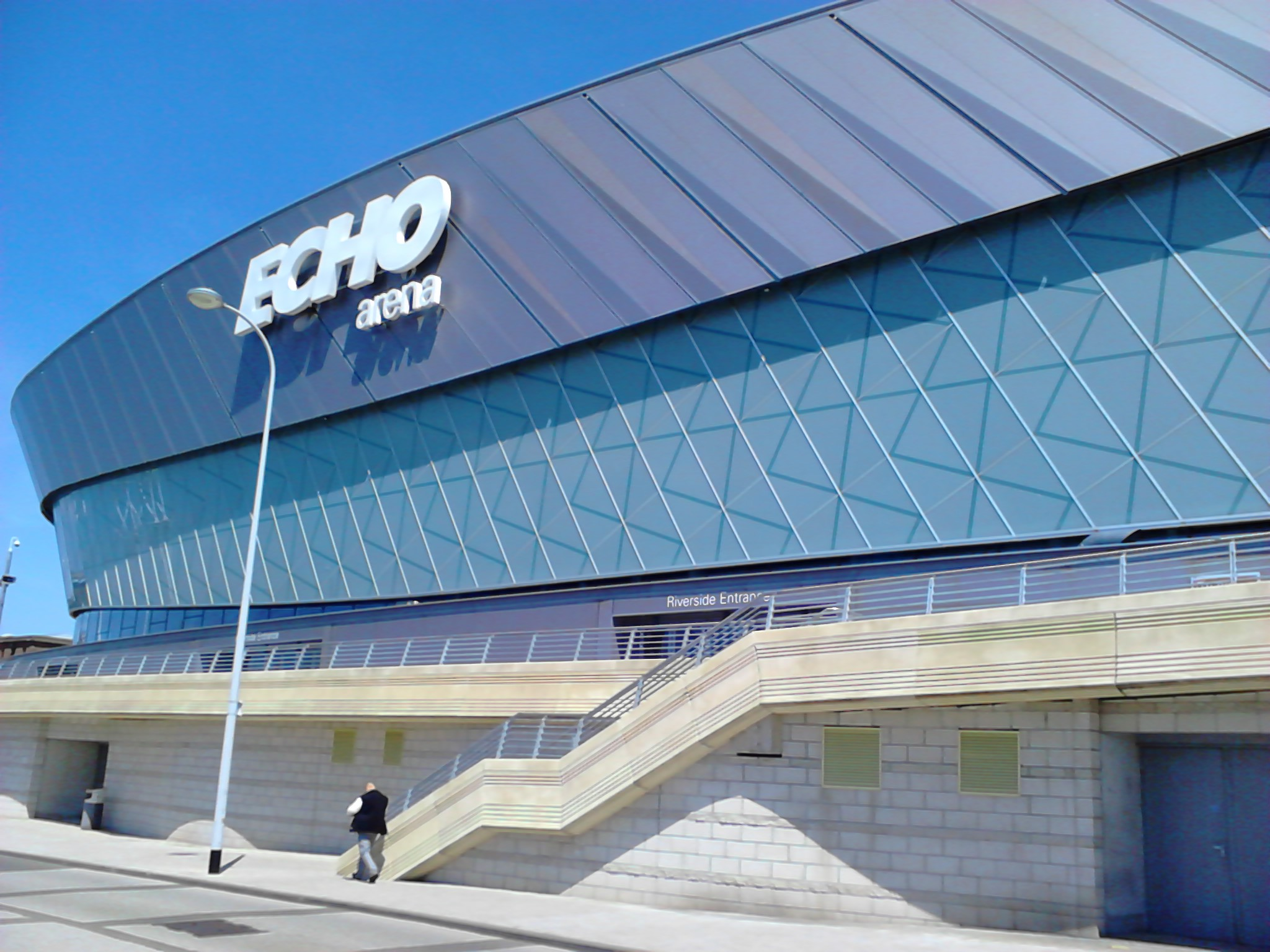 Echo Arena Liverpool, England.